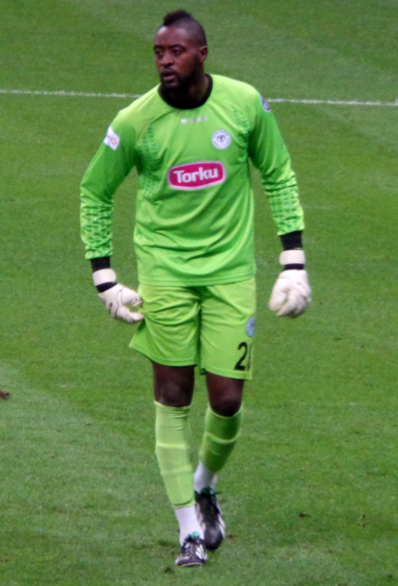 Charles Itandje in 2013 with Torku Konyaspor against Galatasaray